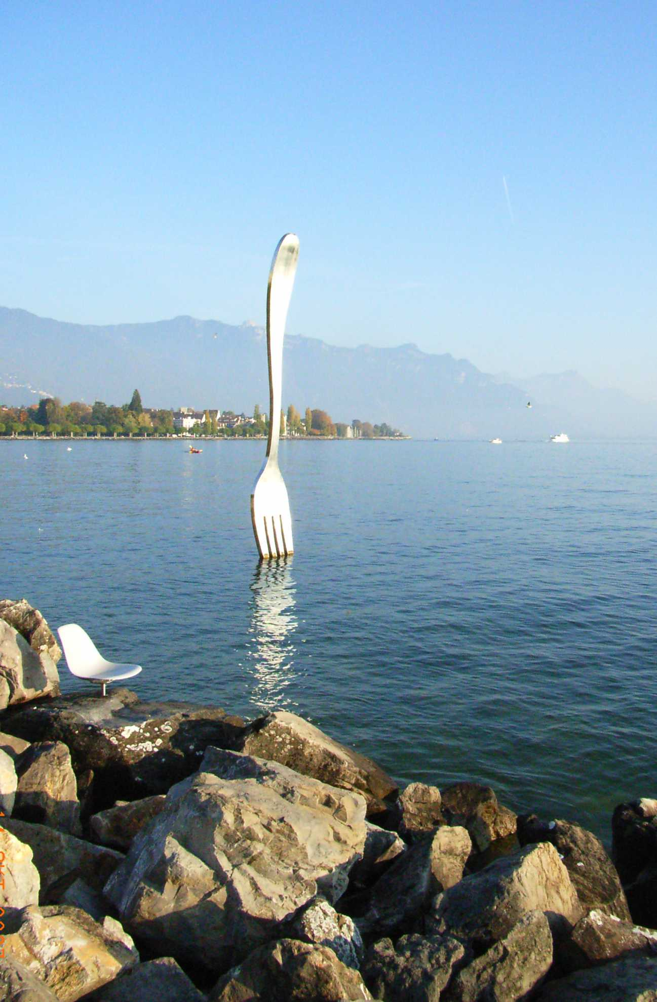 Vevey, Lac Leman, public art, exhibition of the museum Alimentarium about cutlerys (2007)